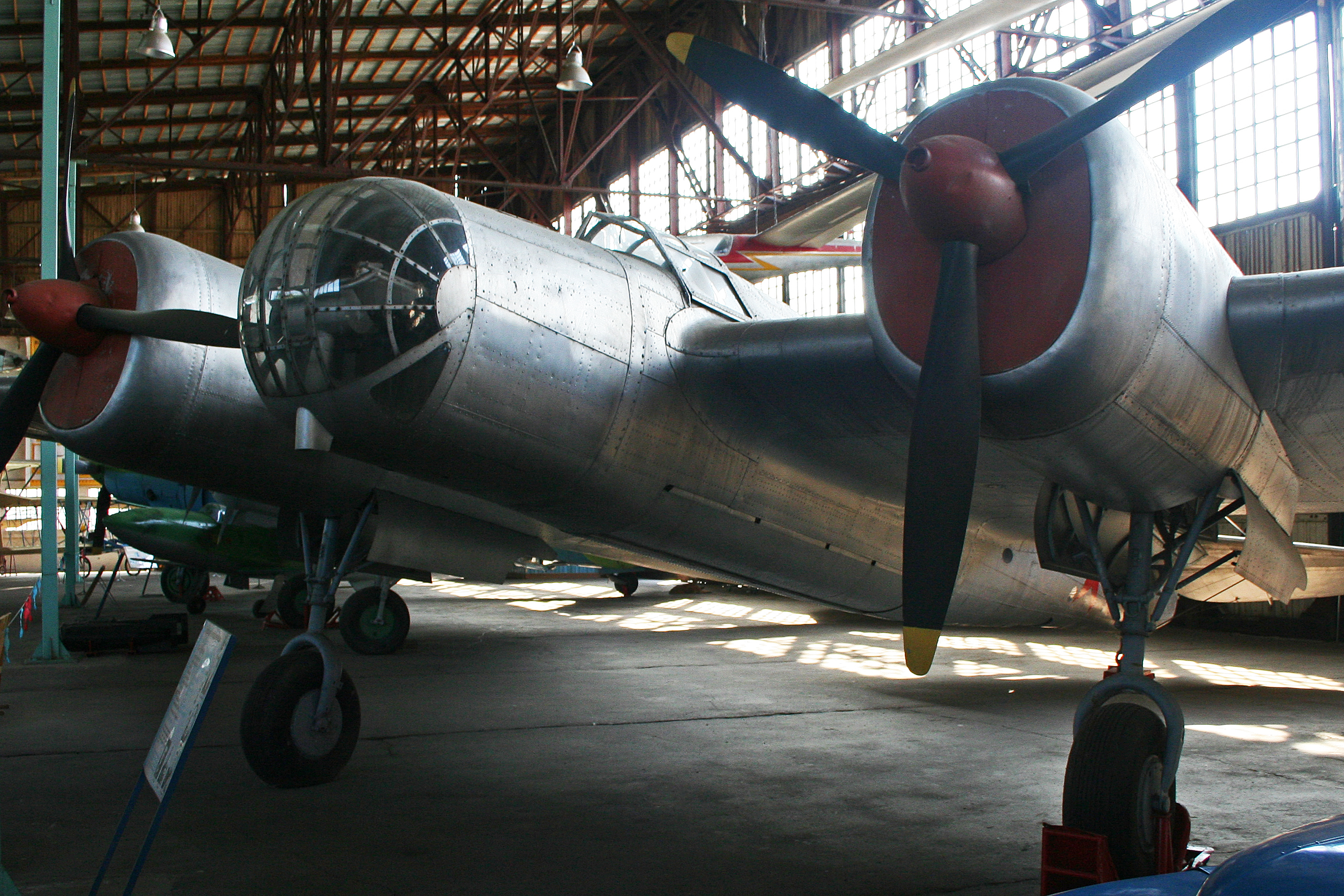 The Tupolev SB was a very successful bomber design which served with ten air forces and was in service during the Spanish Civil War and WW2. It's Tupolev designation was ANT-40. Of the 6,500 produced, this is the only known survivor. Recovered from the Yuzhne Muiski mountain range in the late 1970's, it was restored by a volunteer group of Tupolev employees and went on display, initially outside, in 1982. It has since moved under cover in the original display hangar. Russian Air Force Museum. Monino, Russia. 13-8-2012